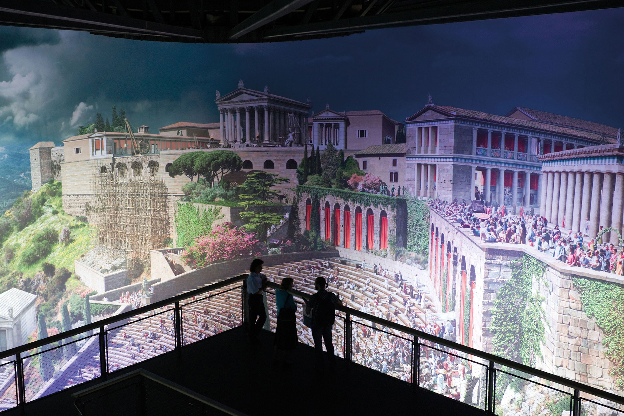 Visitors are watching the acropolis in the Panorama PERGAMON (c) asisi